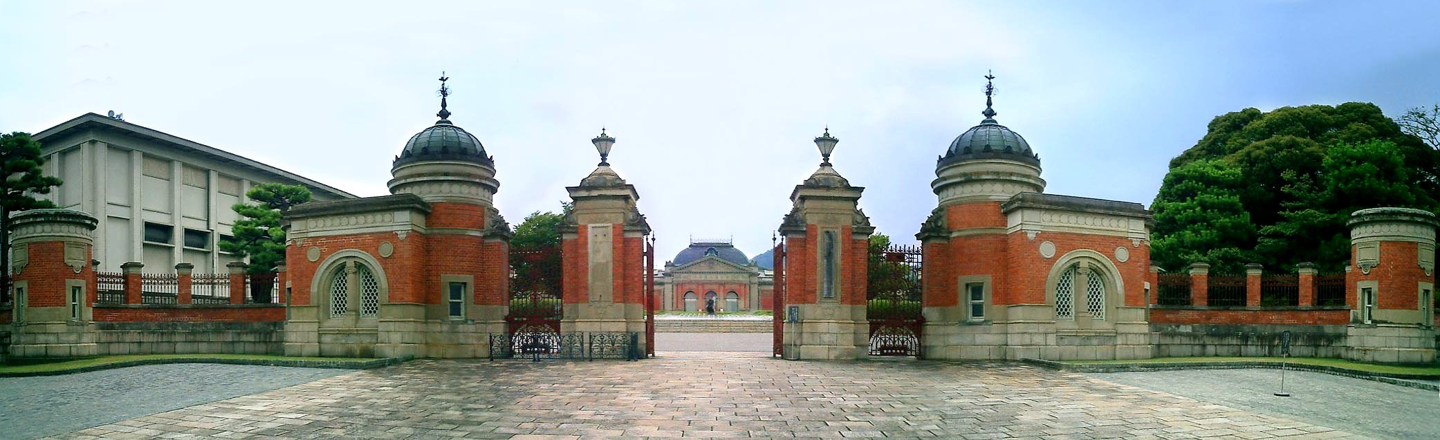 Kyoto_National_Museum_main_gate